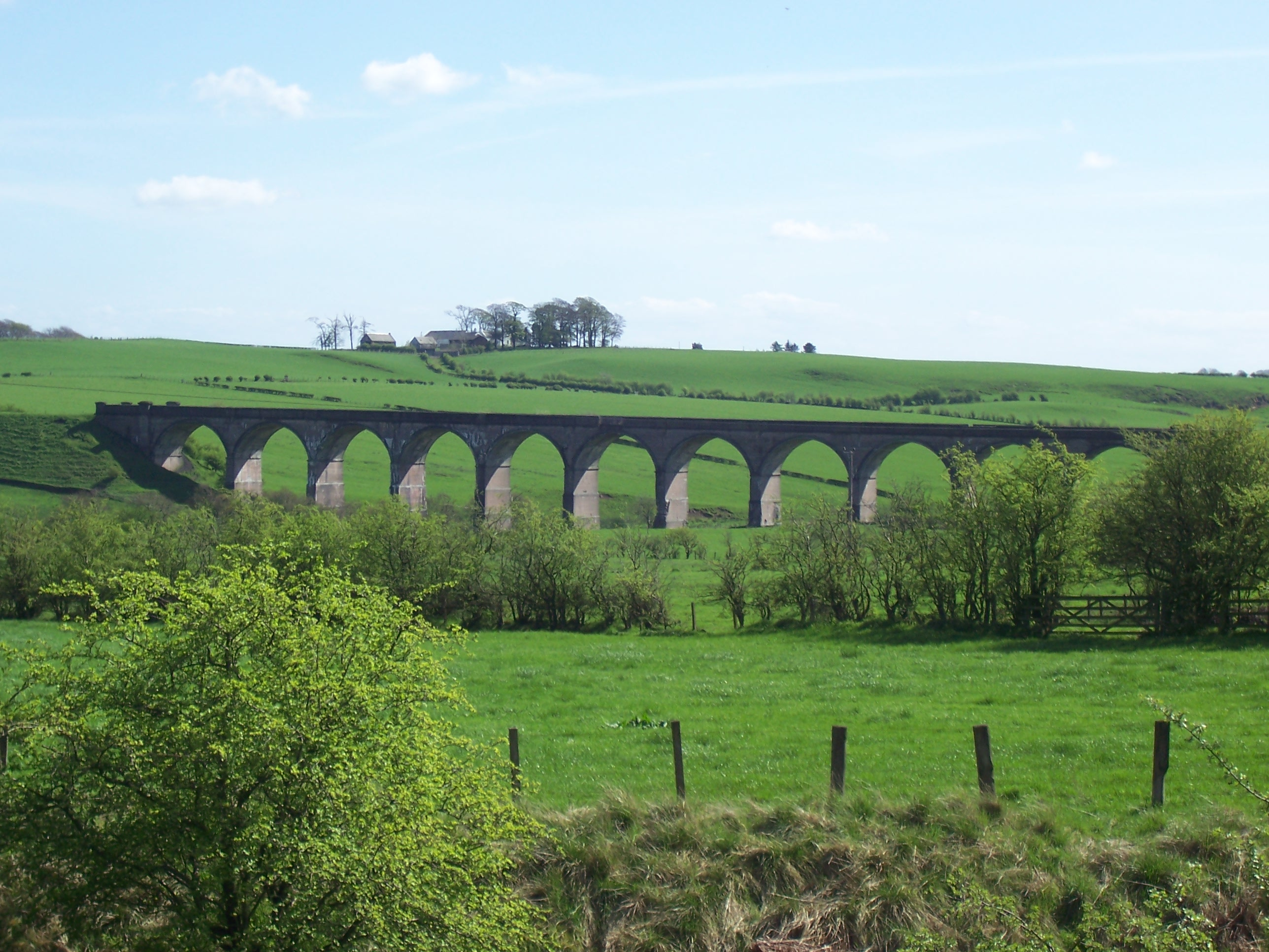 The Gree Viaduct was built in the early 20th century as part of the extension to Newton by the Lanarkshire and Ayrshire Railway in Scotland. Although it no longer carries a railway line. The site of the viaduct lies on the border of North Ayrshire and East Ayrshire. The viaduct was demolished in February 2008. Photo by Dreamer84.